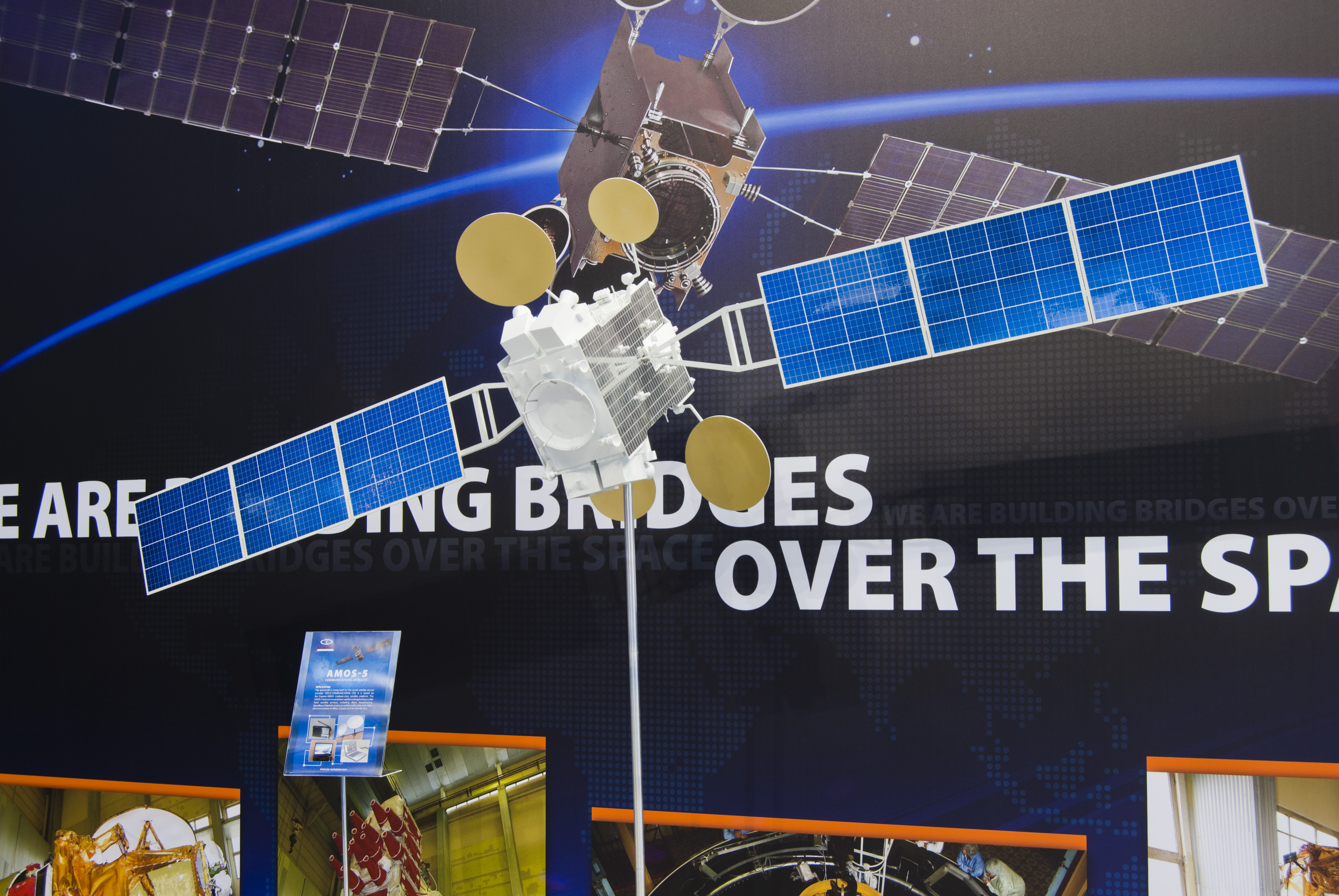 Model of Israely Amos-5 satellite during "Semana de Espacio", in IFEMA, Madrid, 05.2011